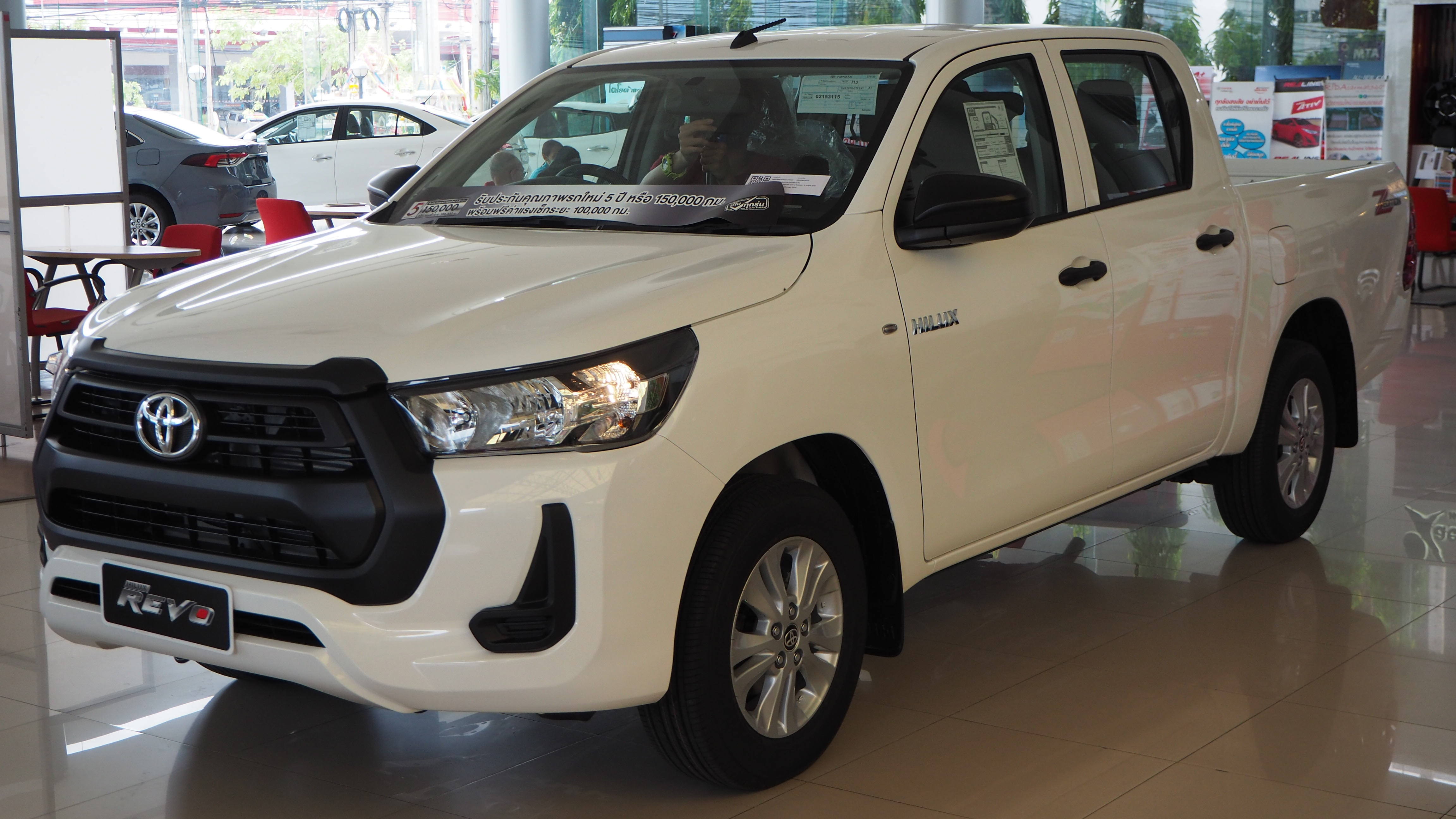 2020 Toyota Hilux Revo Z-Edition Double-Cab 2.4 Mid STD in Toyota Kaennakorn, Khon Kaen, Thailand.